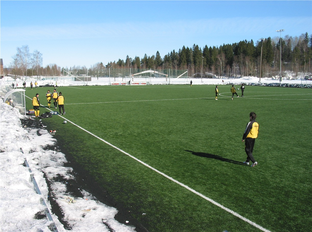 Lillestrøm stadion in Kjeller, Norway. Taken by me on March 25, 2006 and cropped/resized.